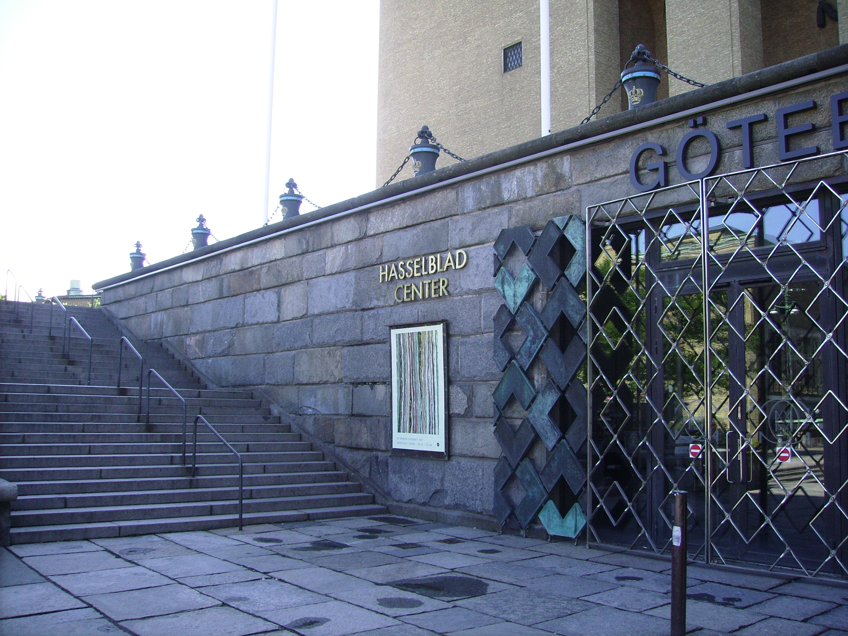 Picture of Hasselblad Center, at the Göteborgs Konstmuseum, in Gothenburg.